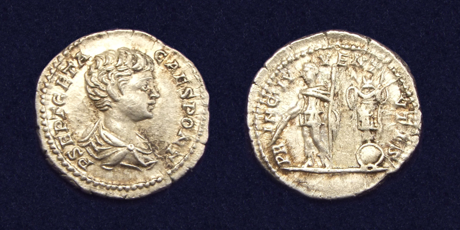 Roman denarius, Geta (209-2011 AD)